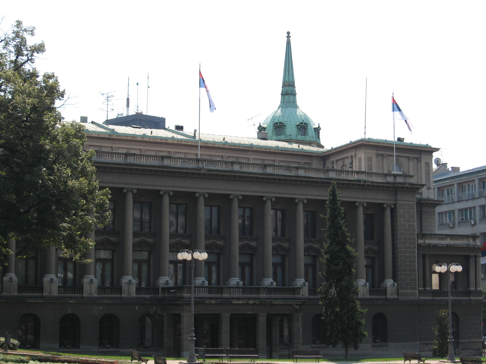 Novi Dvor - Beograd: seat of the President of the Republic of Serbia